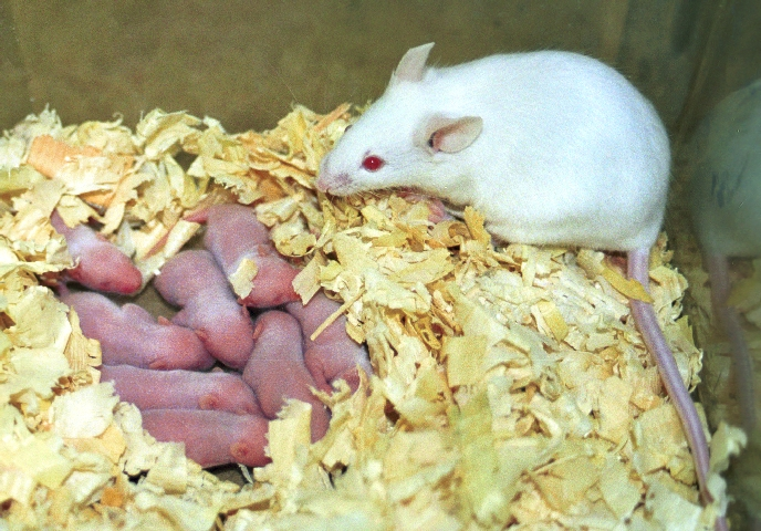 Albino female Hsd:ICR mouse with litter